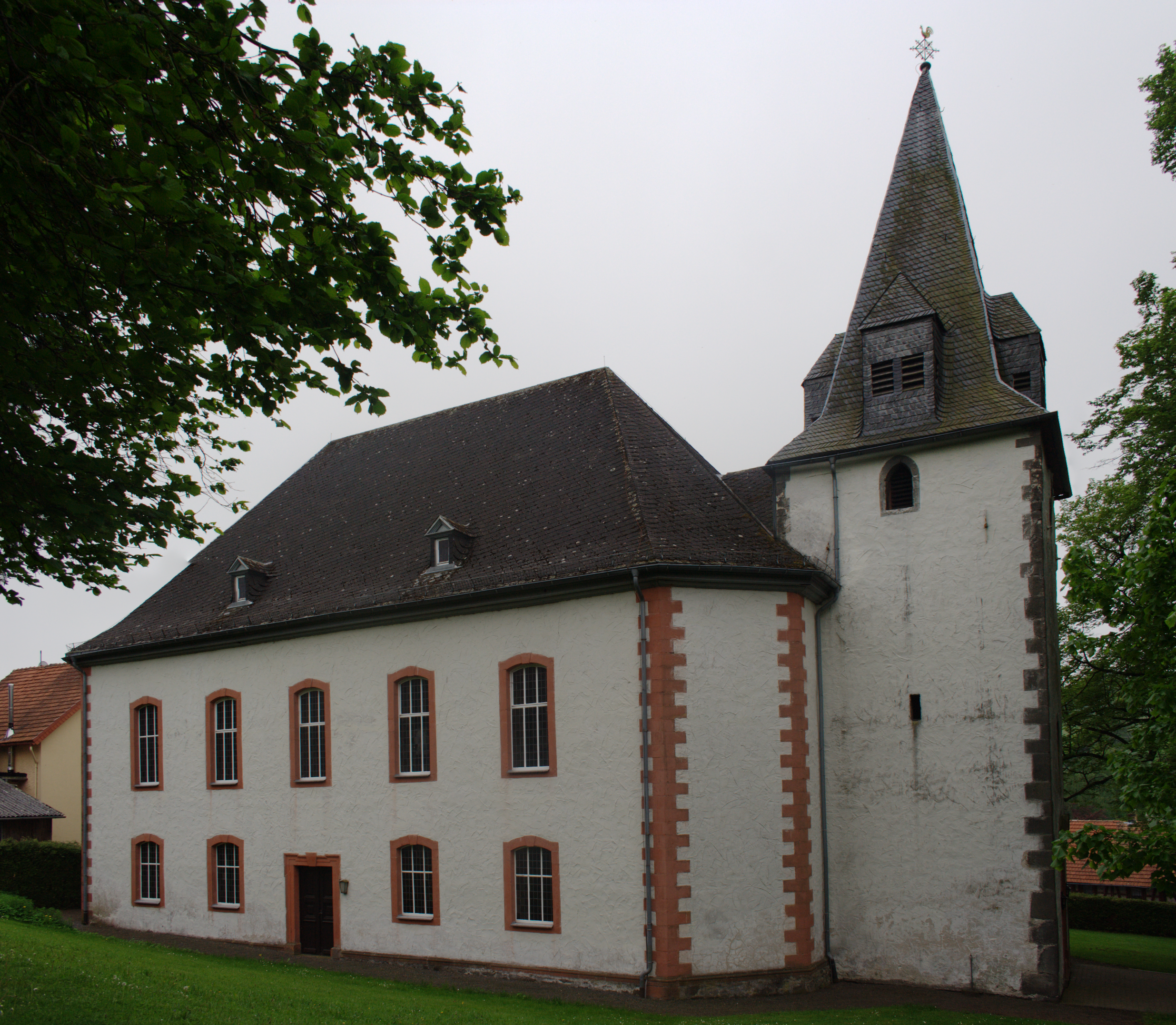 Protestant church in Ulrichstein, Bobenhausen II, Hesse, Germany